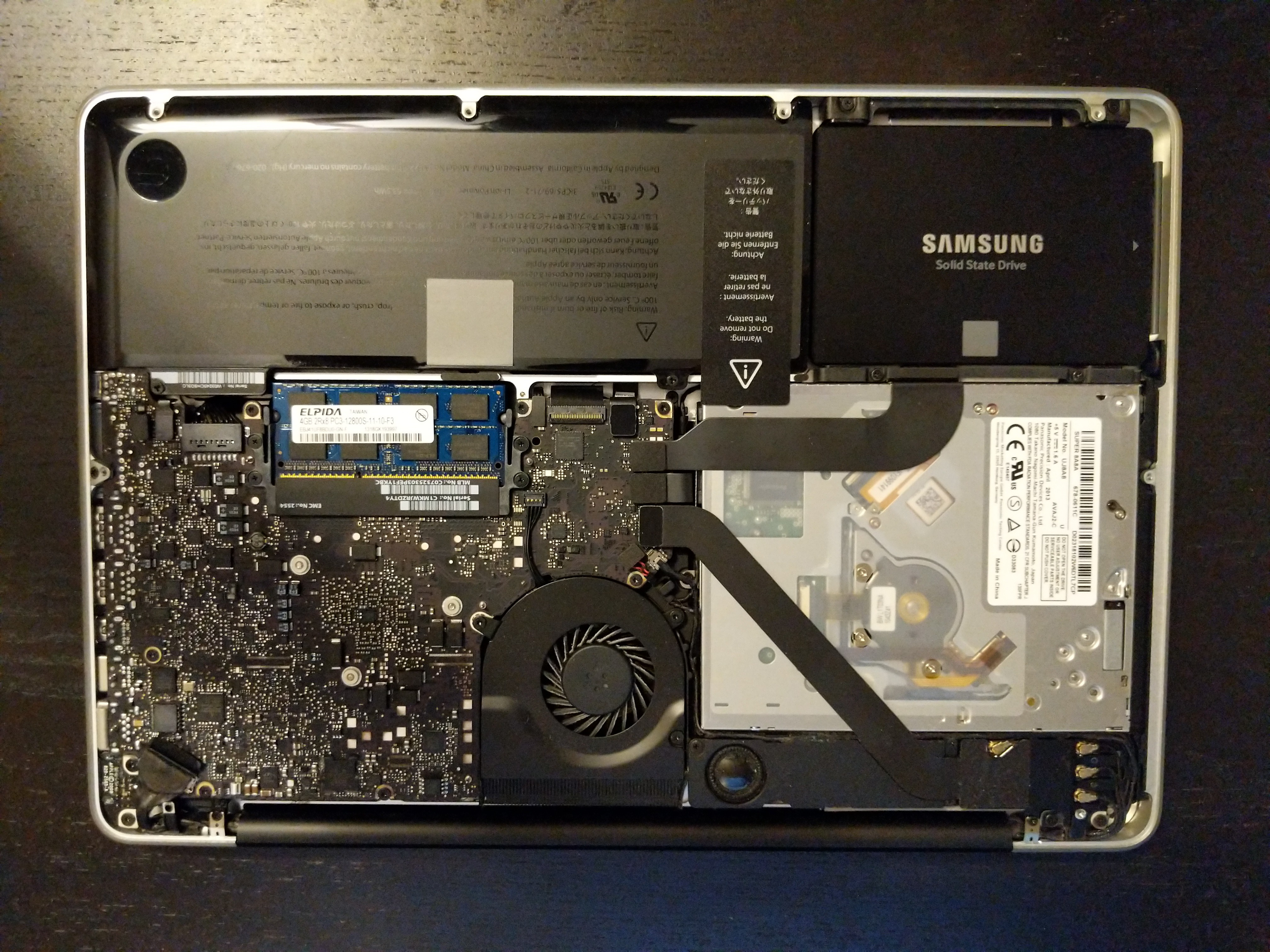 MacBook Pro 2013 internals